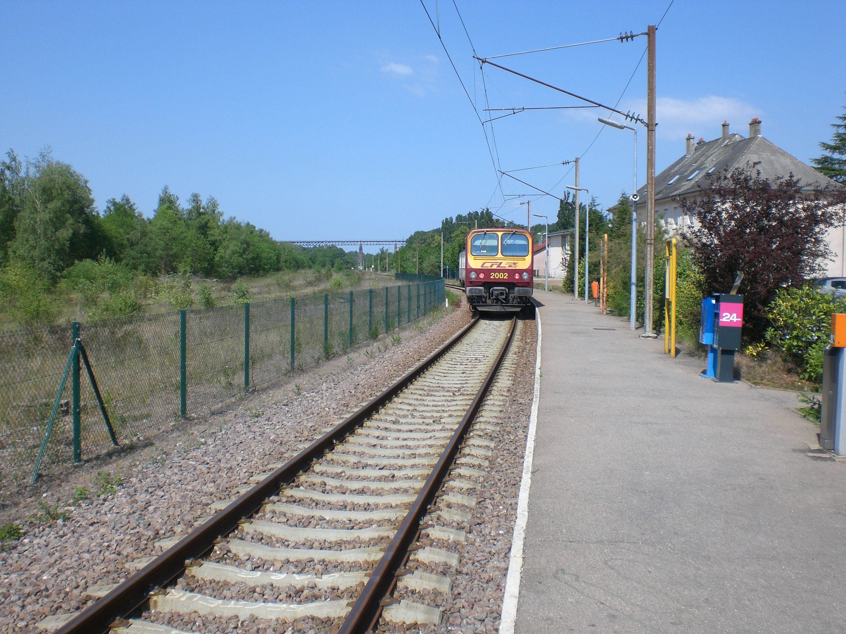 View towards Esch-sur-Alzette of the station platform of Audun-le-Tiche.